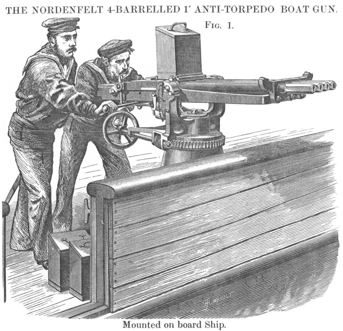 Drawing showing firing of Nordenfelt 1-inch 4-barrel anti-torpedo boat gun on shipboard mounting.